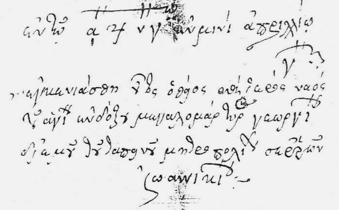 A note from metropolitan Ioannikios of Serres, 1753